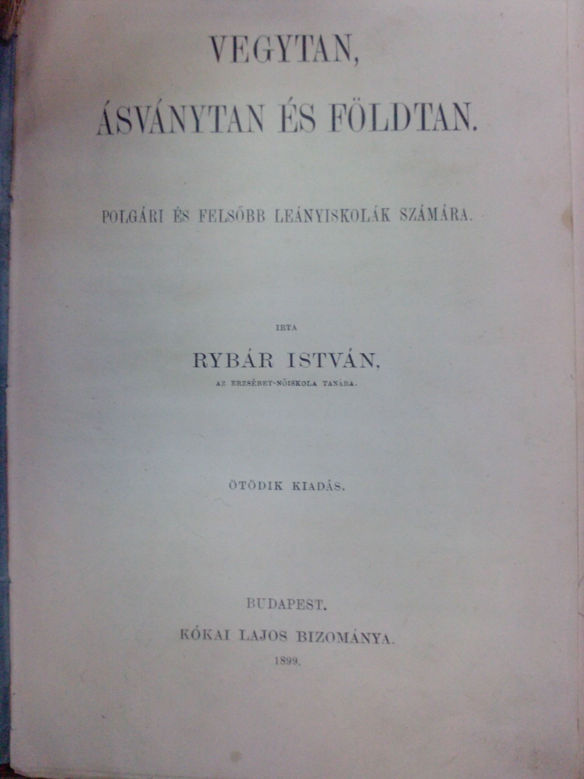 Rybár book 2